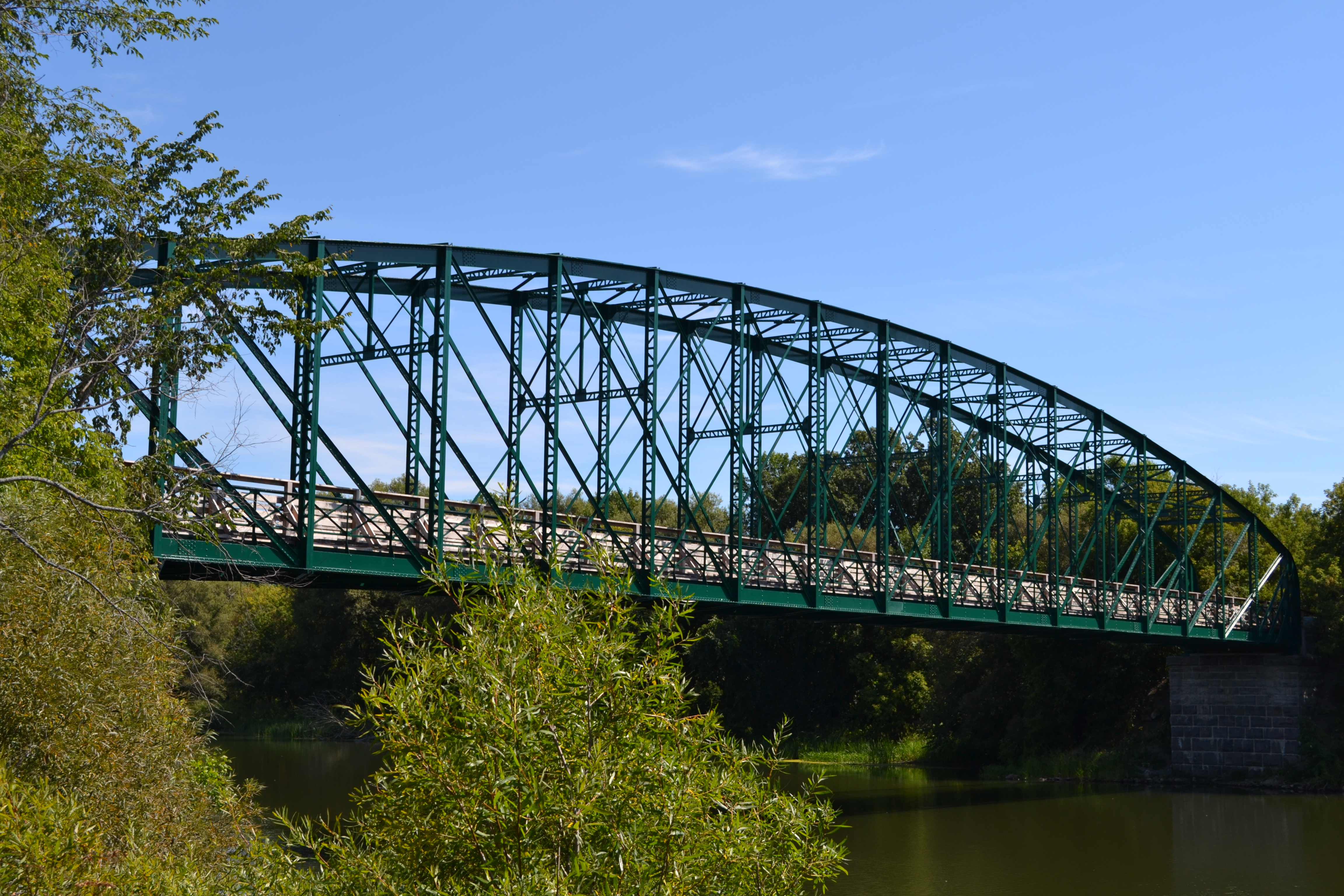 Turcot Bridge is a civil engineering structure built in 1889.